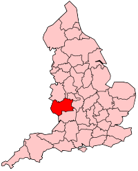 Former administrative county of England